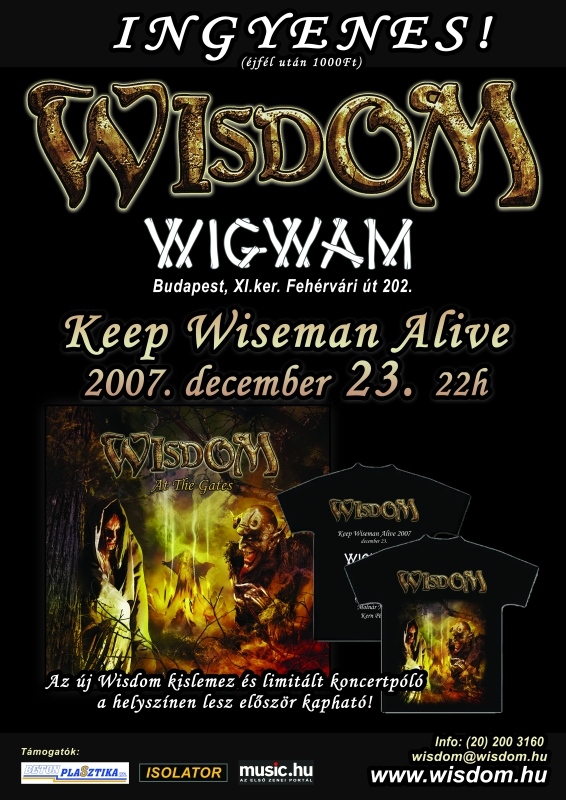 This flyer was made for the Keep Wiseman Alive III show in 2007.